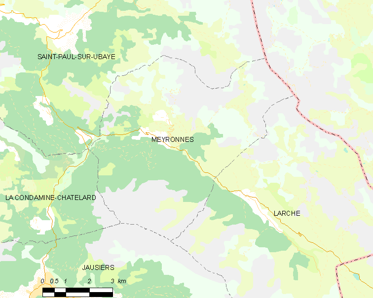 Map commune FR insee code 04120.png Légende